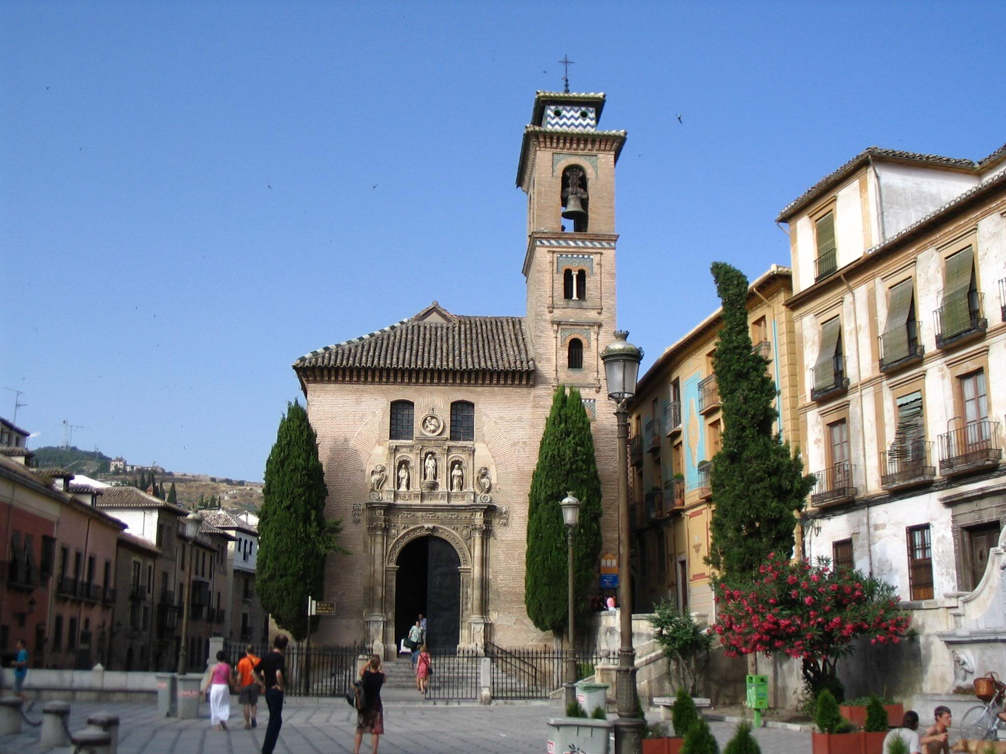 Church of San Gil & Sta Ana.